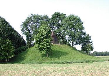 Jeduten-hill in Nordenham-Grebswarden